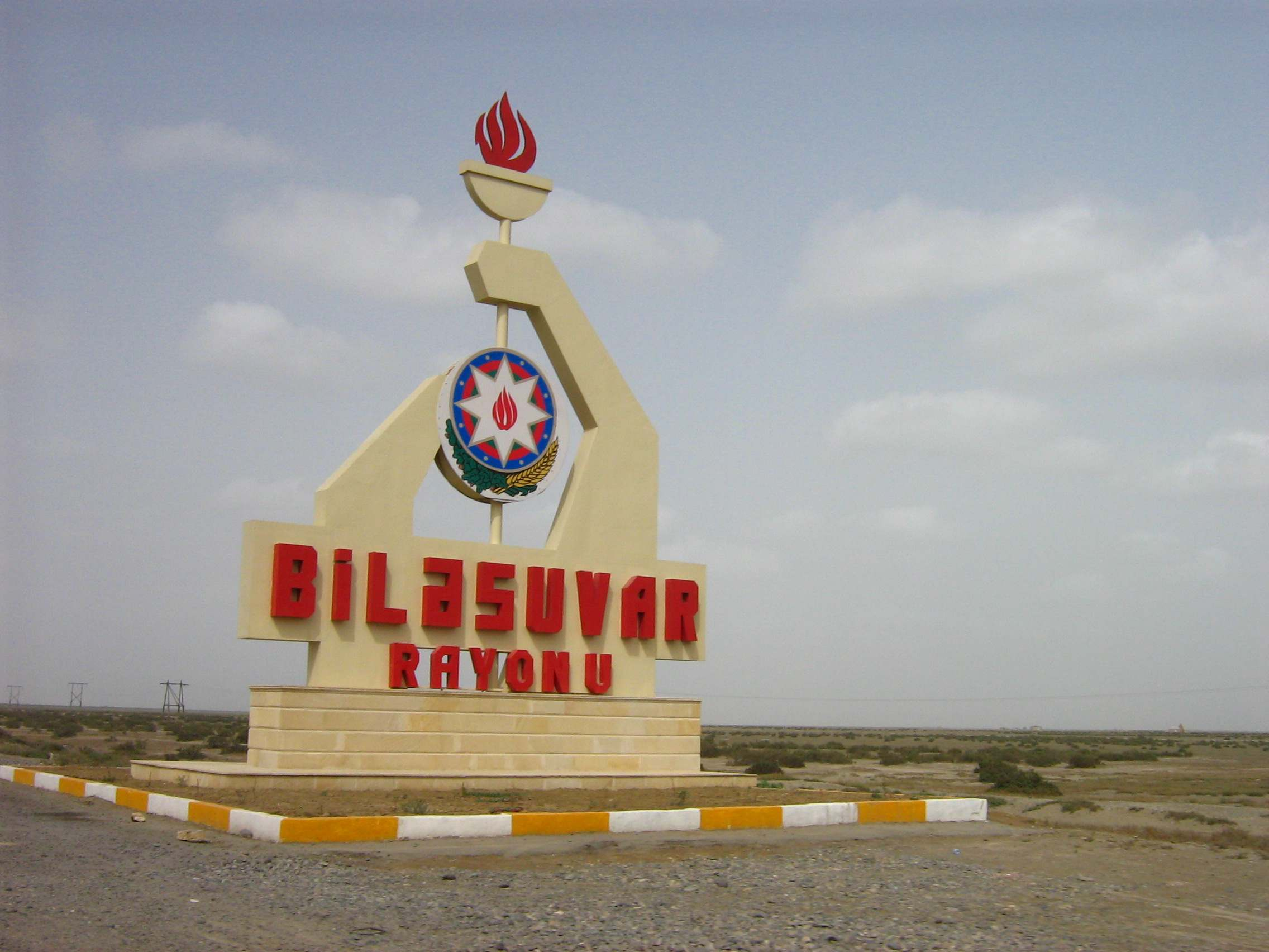 Road sign at the entrance to Bilasuvar rayon, Azerbaijan